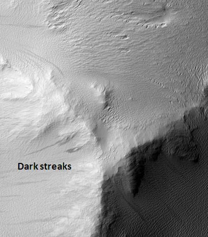 Nicholson Crater Mound, as seen by hirise. Location is 0.2 degrees north latitude and 195.6 degrees east longitude. Image was taken by the Mars Reconnaissance Orbiter's HiRISE. The HiRISE camera was built by Ball Aerospace and Technology orporation and is operated by the University of Arizona. Image courtesy NASA/JPL/University of Arizona.